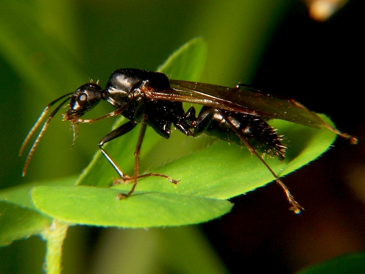 Jpeg image, low resolution cropped copy, male carpenter ant Camponotus pennsylvanicus.